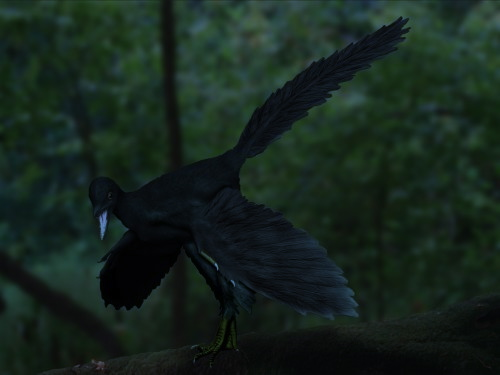 Artist's restoration of Archaeopteryx following Carney's 2011 feather coloration study, indicating that at least some of the feathers on the animal were black